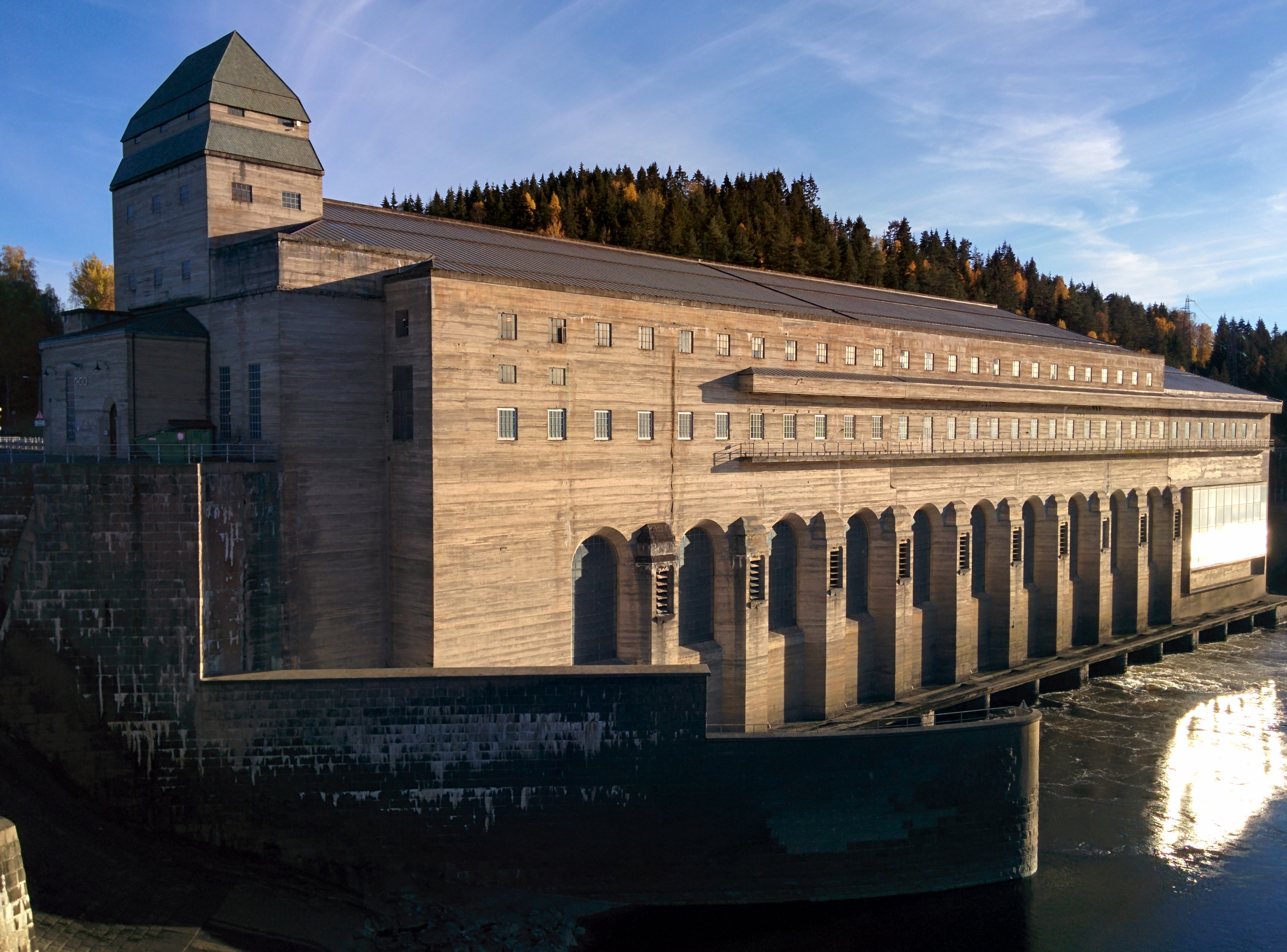 Solbergfoss kraftverk